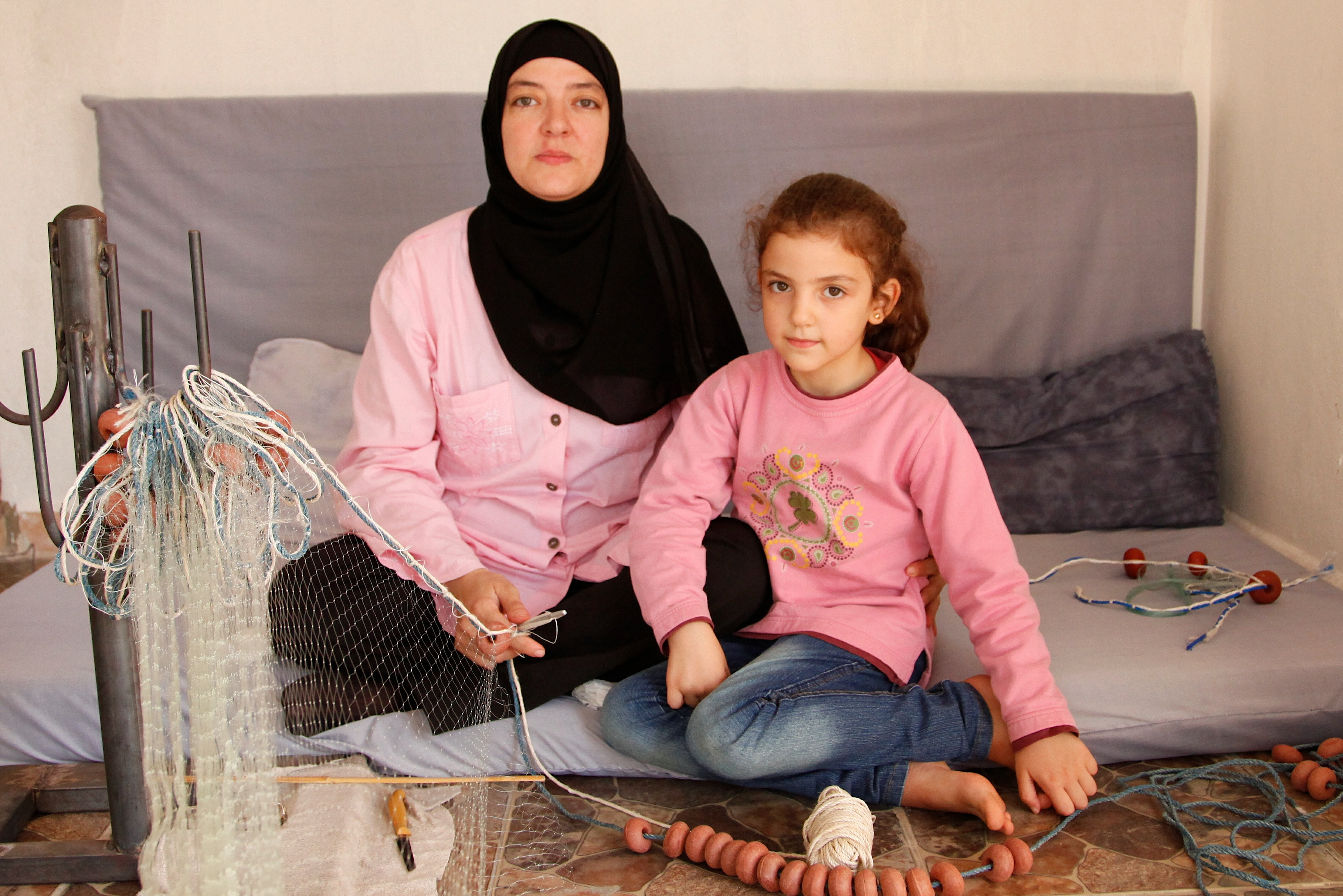 Nahed* is from Homs in Syria. "I was living happily there before the conflict started", she says. "But after it began, the situation became mixed-up. We decided to come to Lebanon, because I was afraid for my children. They were traumatised by what they had seen and heard." "The cooperative and IRC offered us this work making fishing nets here. The training is good, it's great. It helps us to learn and to earn a living." "I hope to be able to sell the nets to get some income, to be able to support my family." Learning how to knit fishing nets might not seem the most urgent priority for refugees who fled Syria’s civil war, yet the International Rescue Committee believes that providing the essential tools to help people to find work is a vital way to help them support themselves. The women also learn how to finish nets by sewing weights and floats to them. The nets are then ready for sale to local fishermen. There’s certainly an art to the craft; it takes months of practice to become expert. Once fully trained it is possible for one woman to knit a 100-meter or 300 foot long fishing net in just three hours. The UK has committed over £800 million to help those affected by the conflict in Syria - our largest ever response to a humanitarian crisis. In addition to livelihoods projects like this one, UK funding is providing support including food, medical care and relief items for over a million people - people who have been affected by the fighting but are still inside Syria and those who have fled the country and become refugees in neighbouring Lebanon, Jordan, Turkey and Iraq. Picture: Russell Watkins/DFID